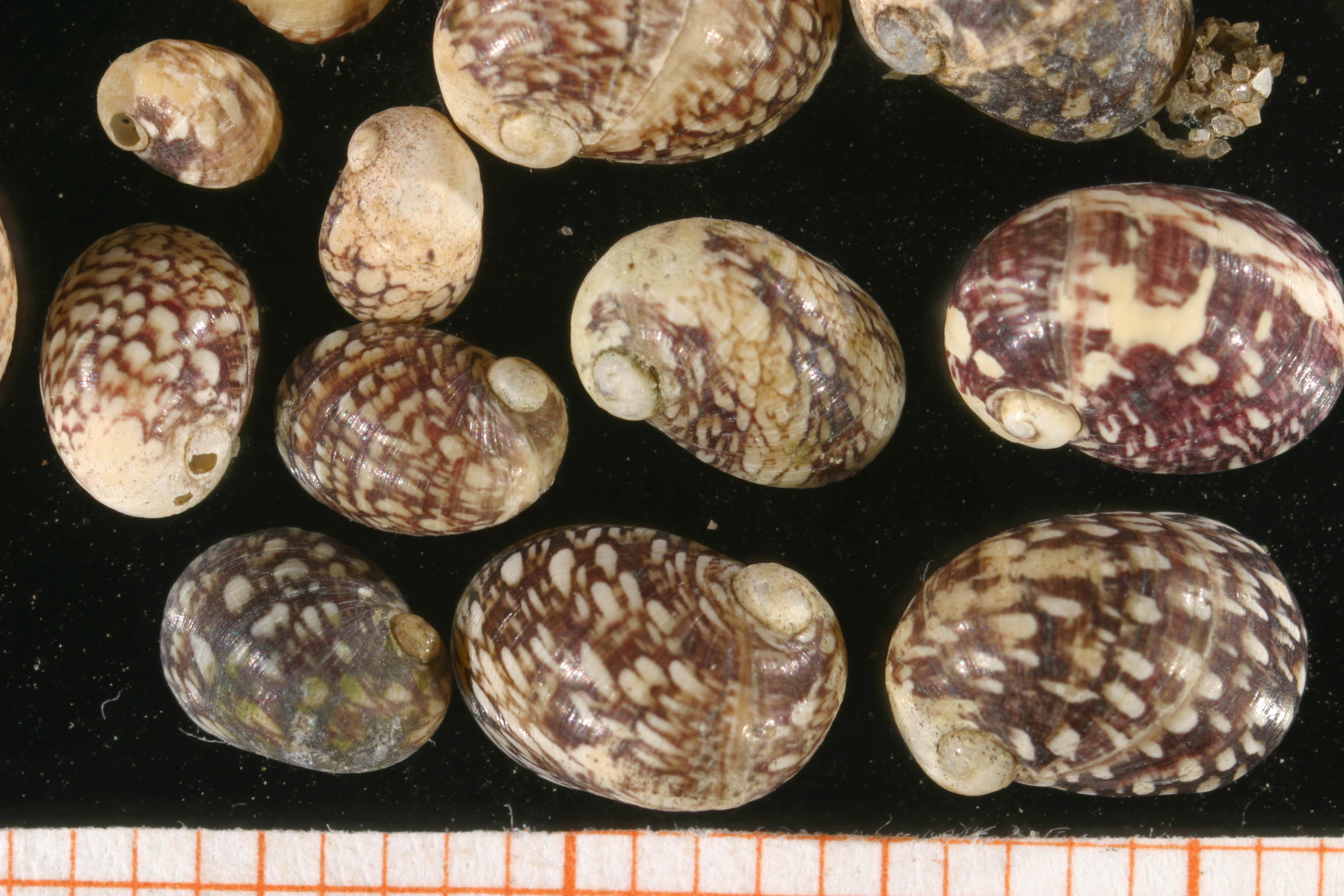 Theodoxus fluviatilis (Linné, 1758), Locality: Wittensee, Schleswig-Holstein, Germany